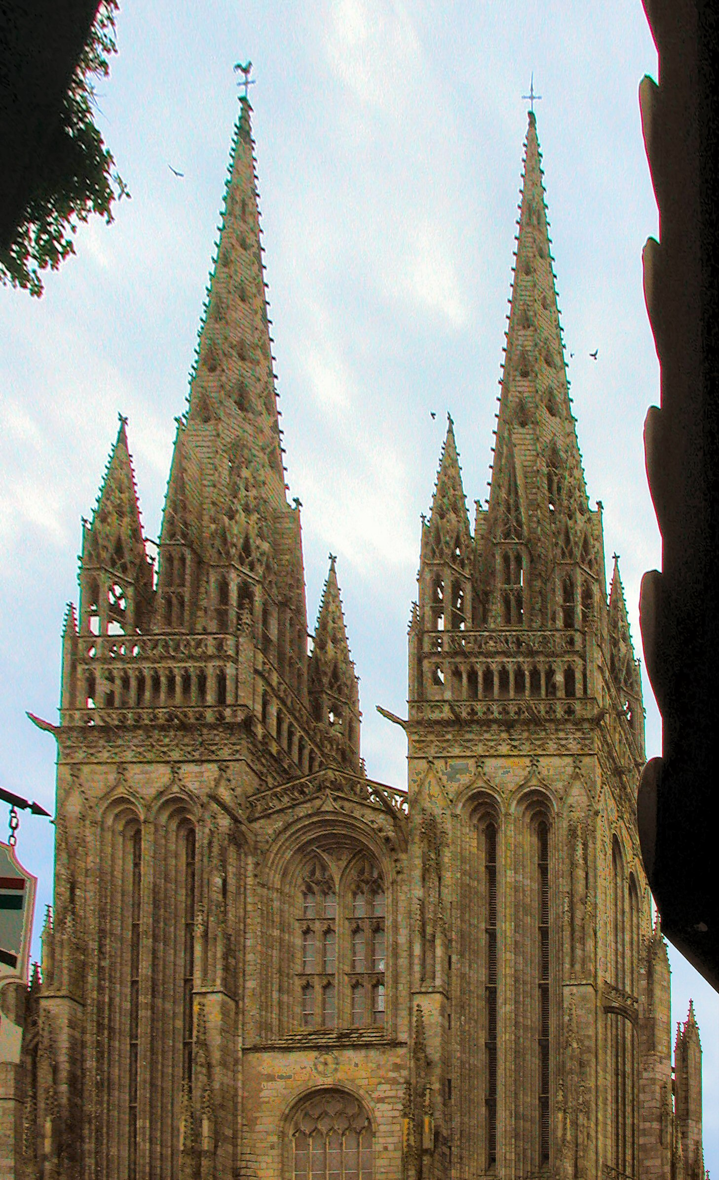 Ardeaglais Chorentin i gKemper na Briotaine. Togtha ag Sean an Scuab sa bhlian 2001.